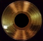 gold record (for future use in riaa gold record certification template)